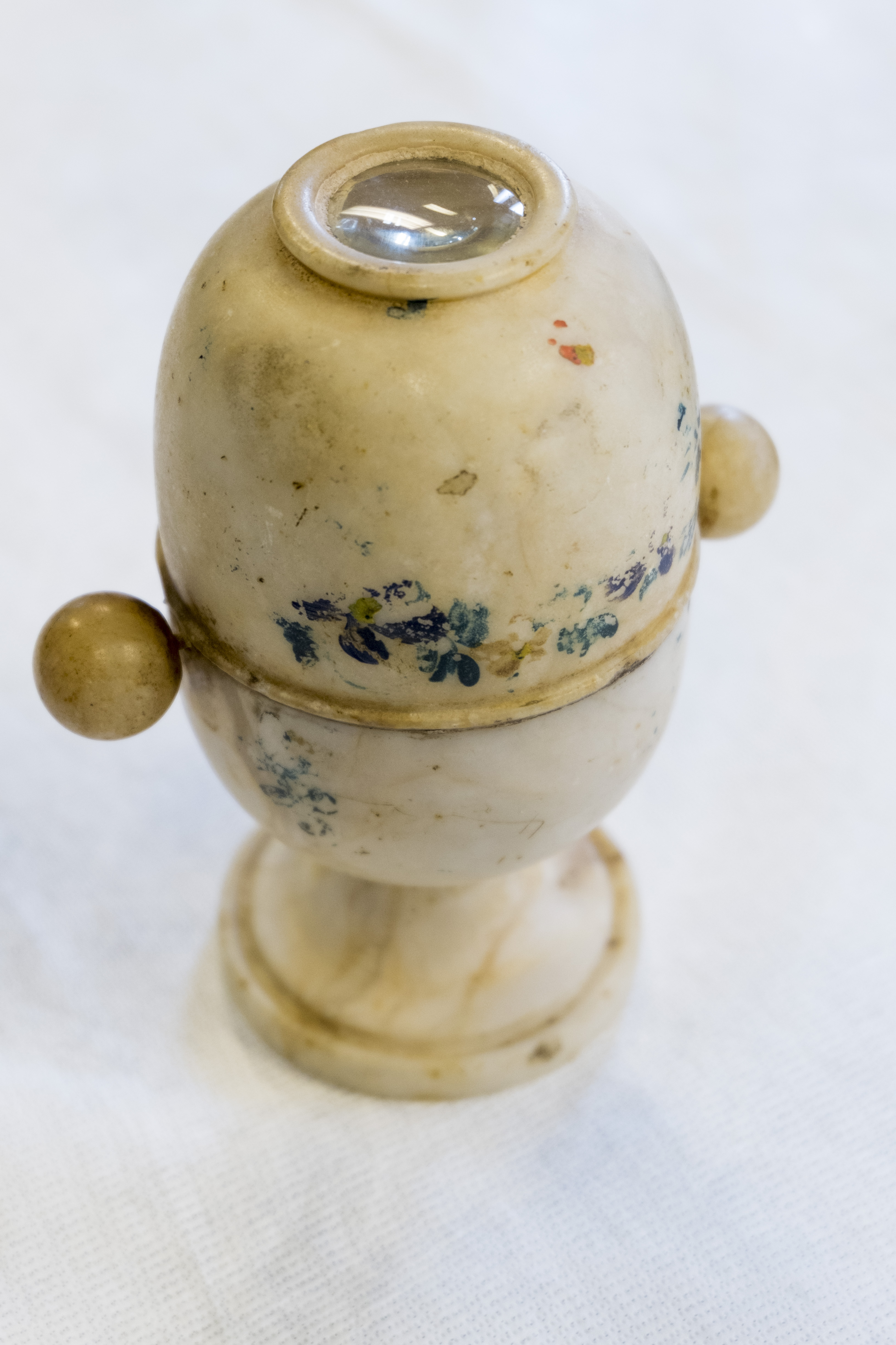 This is a file created at the museum: FOMU Photo Museum in Antwerp